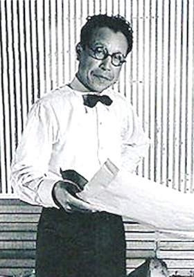 Isoya Yoshida (1894–1974)